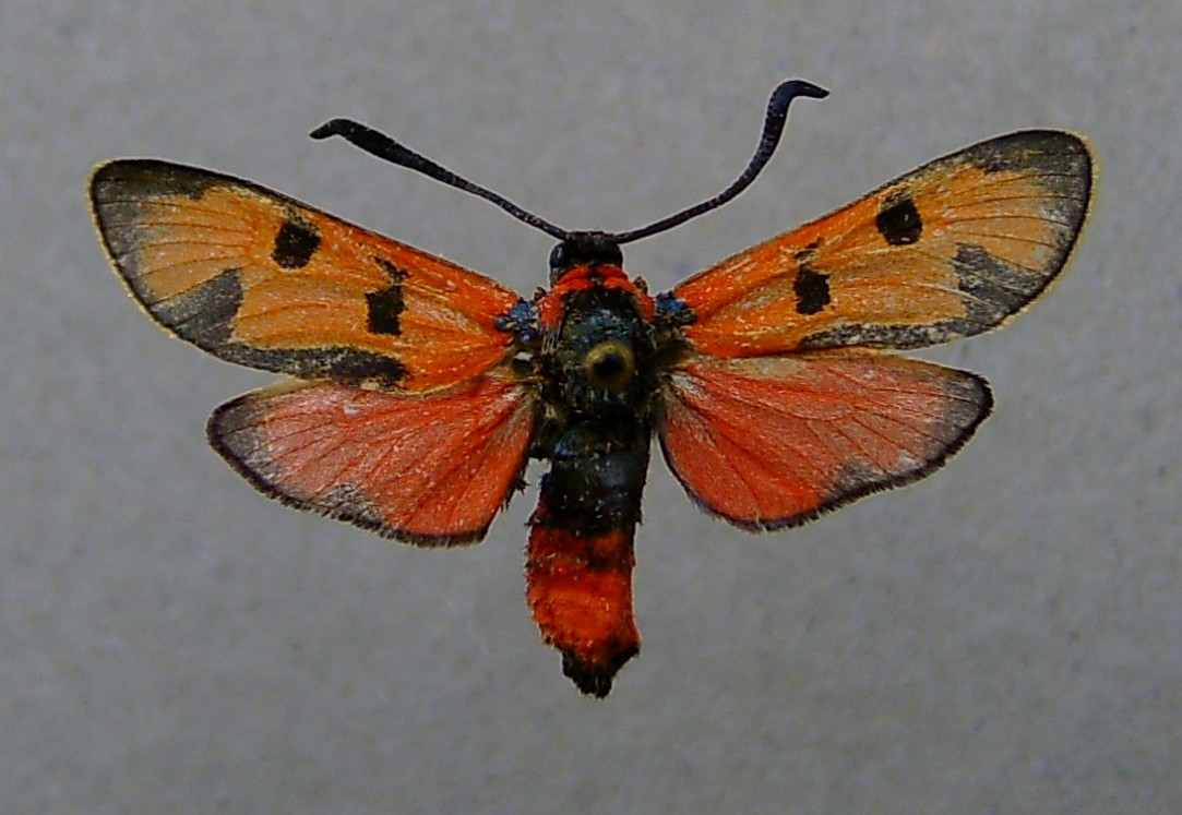 Zygaena laeta